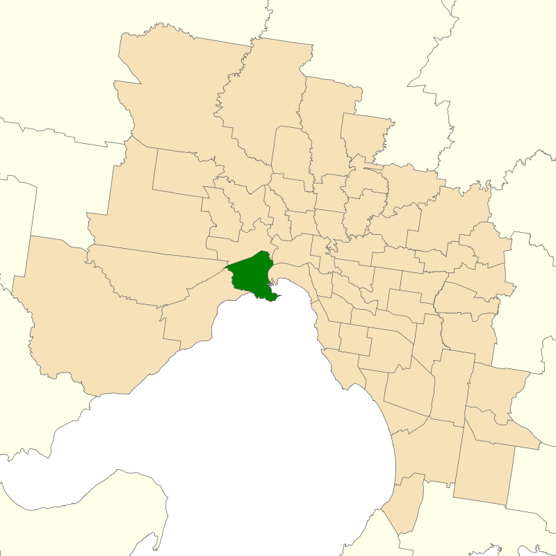 Location of the Victorian electoral district of Williamstown (dark green) in the Greater Melbourne area.